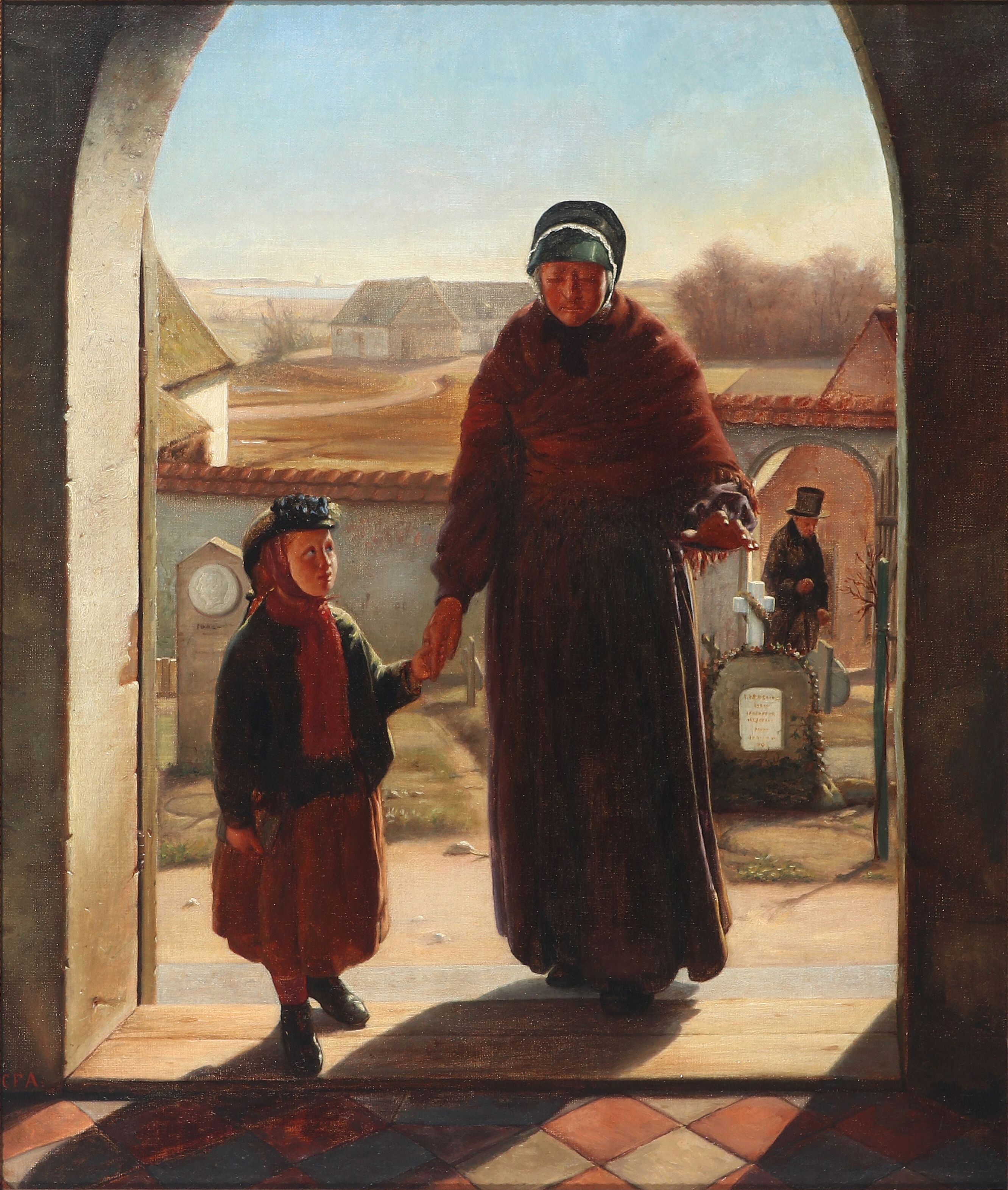 A plaque on the frame dates the painting to 1871.